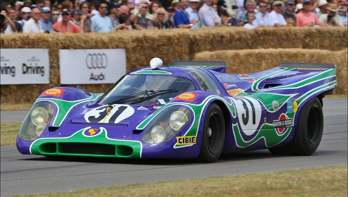 Porsche 917 - Goodwood Festival of Speed 2006